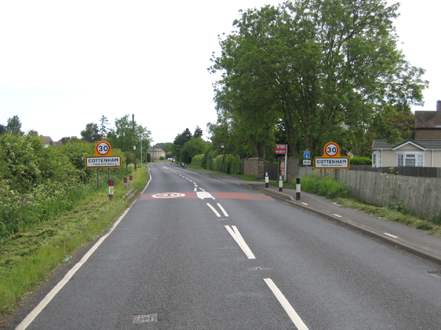 Entrance to Cottenham, Cambs. along the B1049 Histon Road.